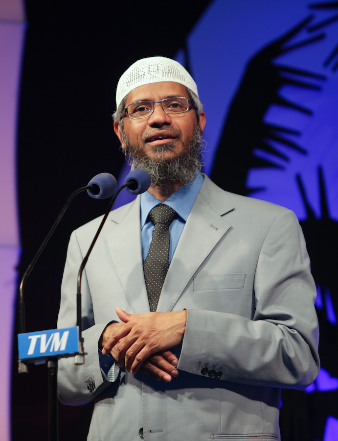 Photograph of Dr Zakir Naik - Dr Zakir Naik in Maldives.